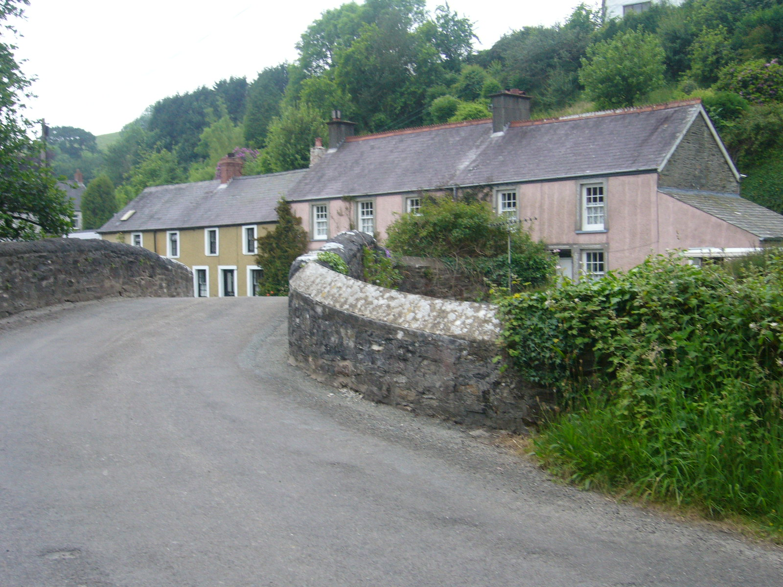 Part of Login, Carmarthenshire. The bridge over the River Tâf in the foreground has a tablet marked "1891. First bridge built under the Carmarthenshire County Council. Local contributions £240. Grant by County Council £380." (Ie. the first bridge built anywhere by the council - which was formed in 1888. Almost certainly not the first bridge at this point.)